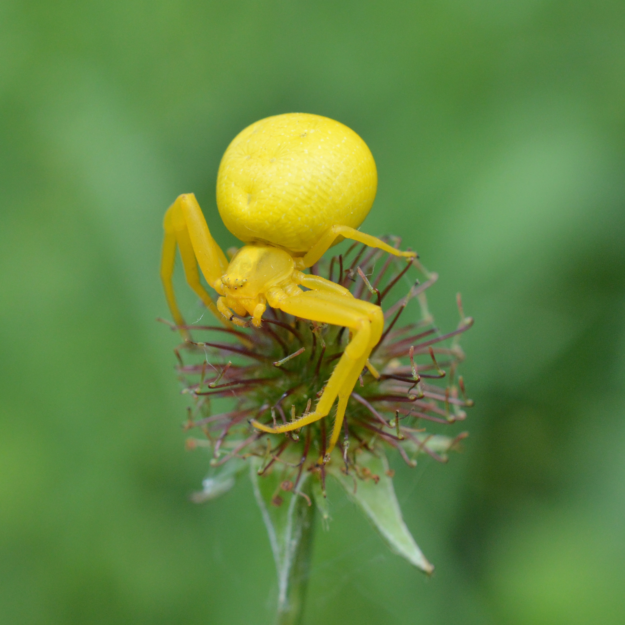 Female crab spider Misumena vatia near Botevgrad, Bulgaria.